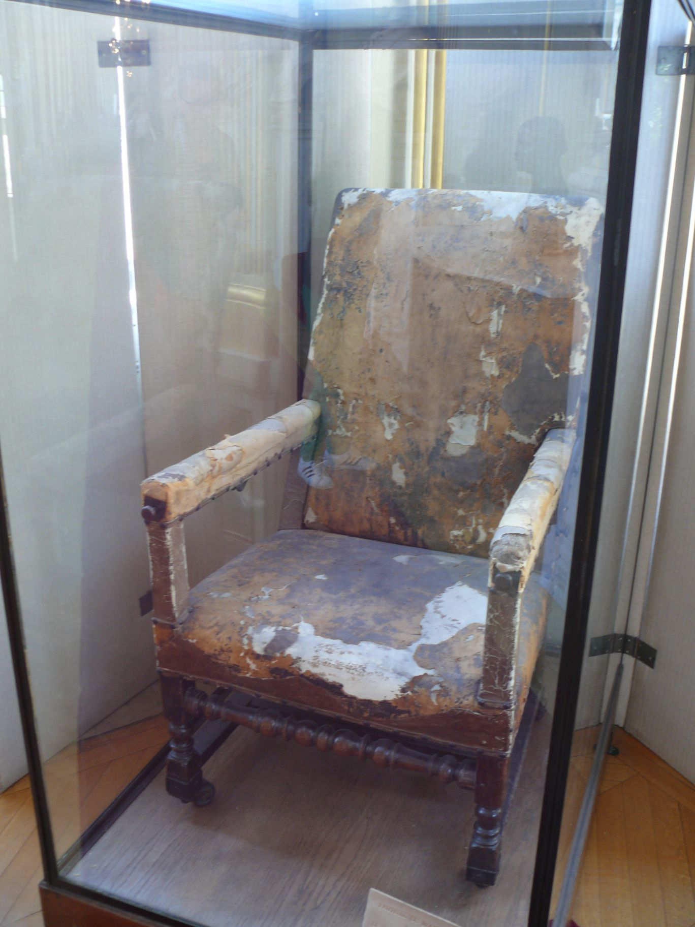 The armchair in which Molière played his last play, in Paris (France).